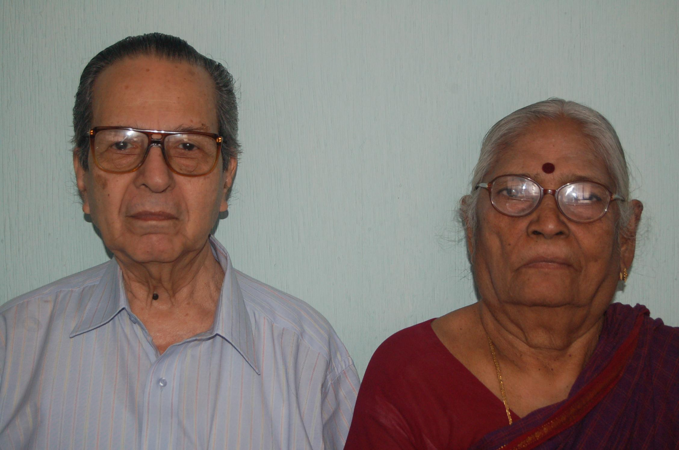 Umanath papa umanath